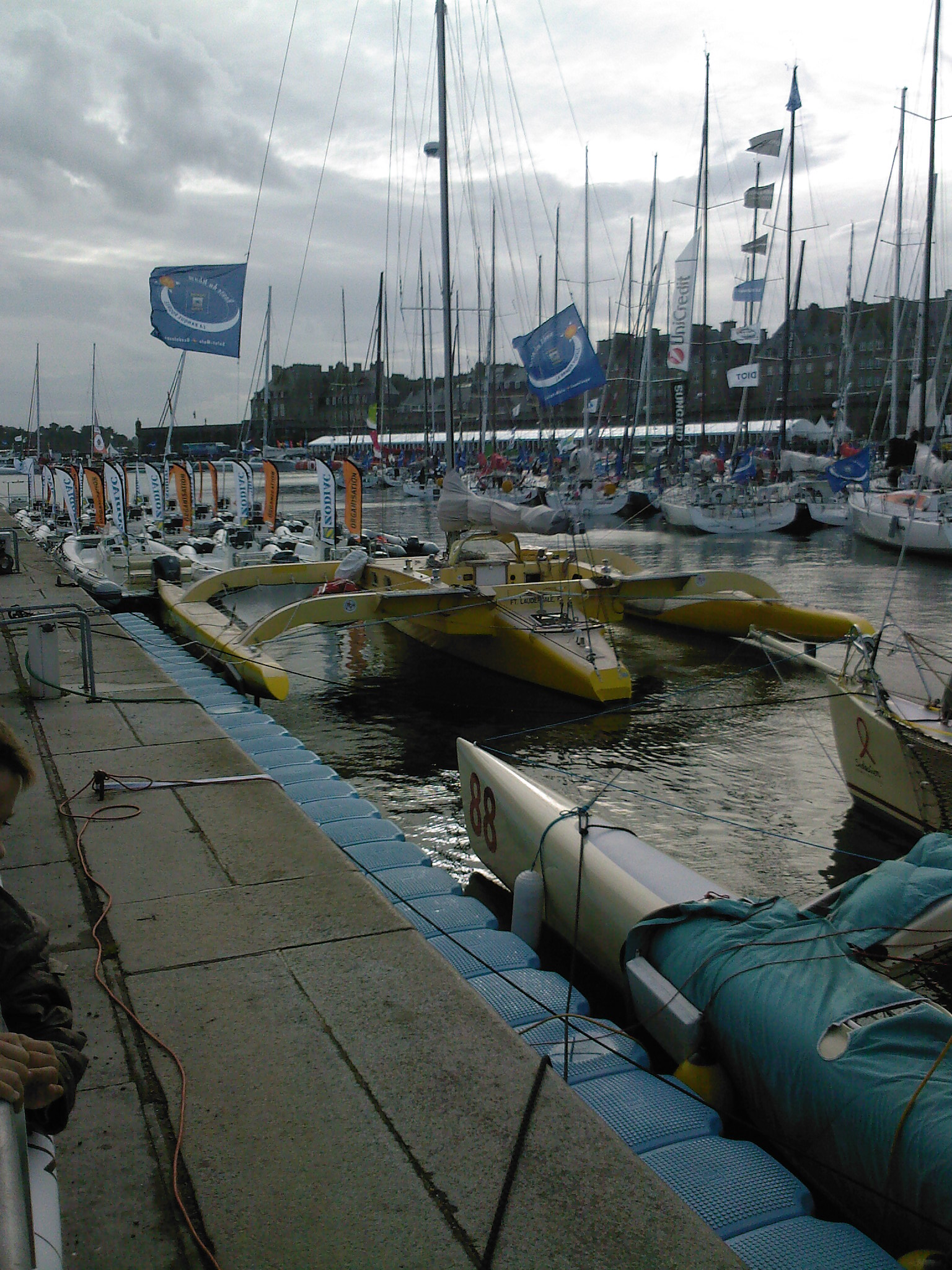 (the yellow boat) by Etienne Giroire at ocean race route du rhum 2010 quai bajoyer saint Malo britany france